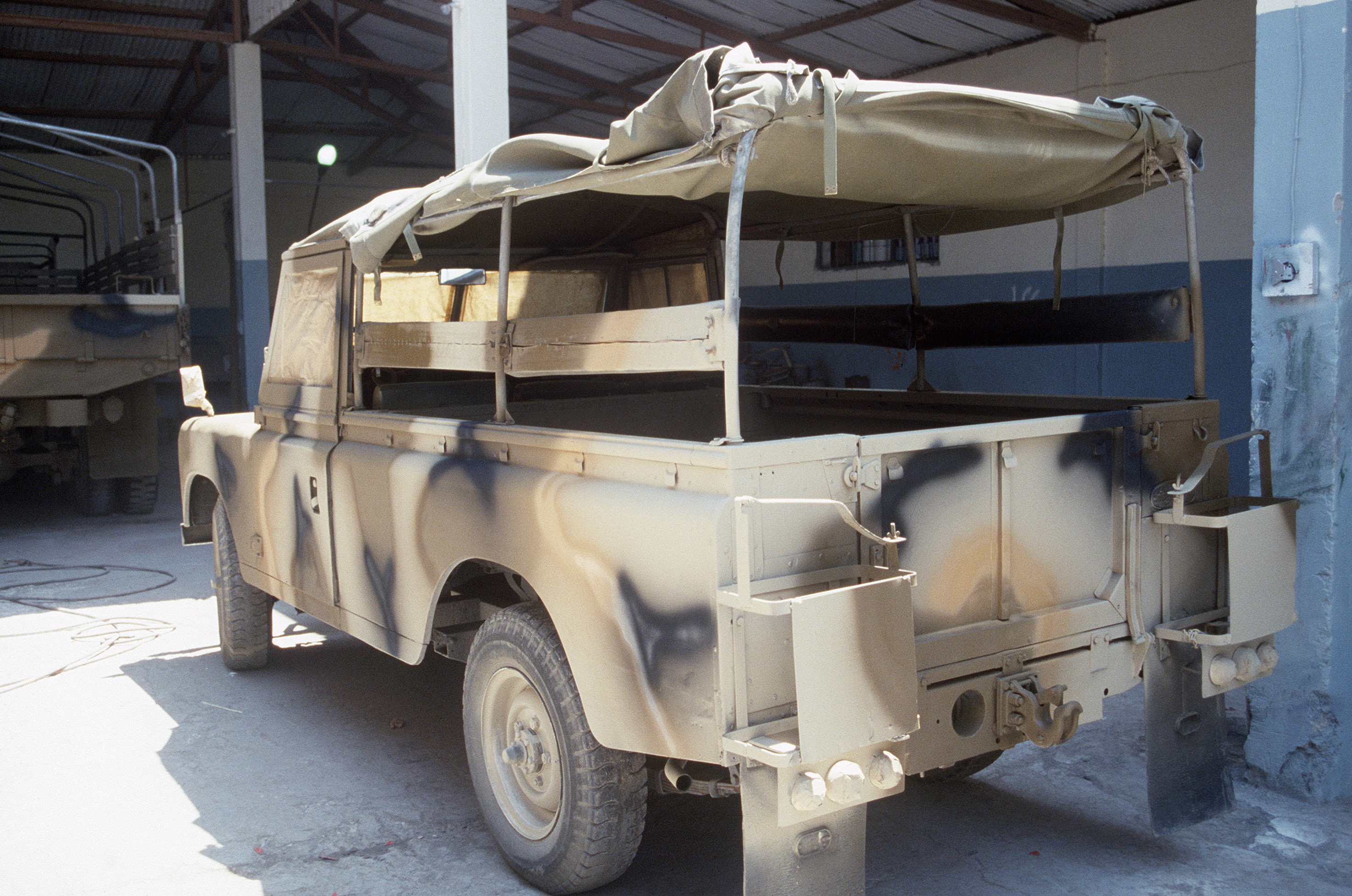 A 2 1/2-ton land rover vehicle after a new camouflage paint scheme that will be used during the multinational joint service Exercise BRIGHT STAR '85.